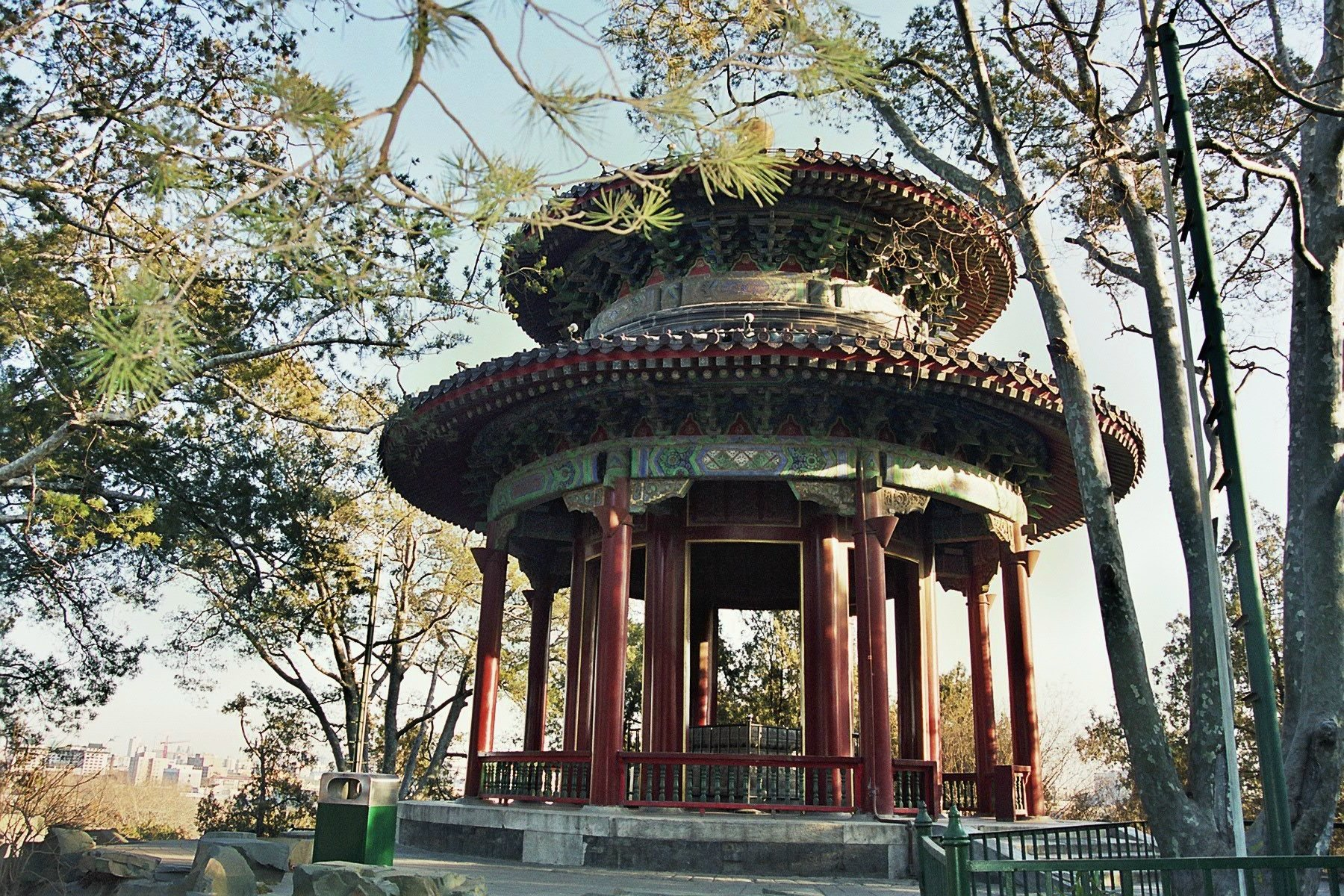 China, Peking